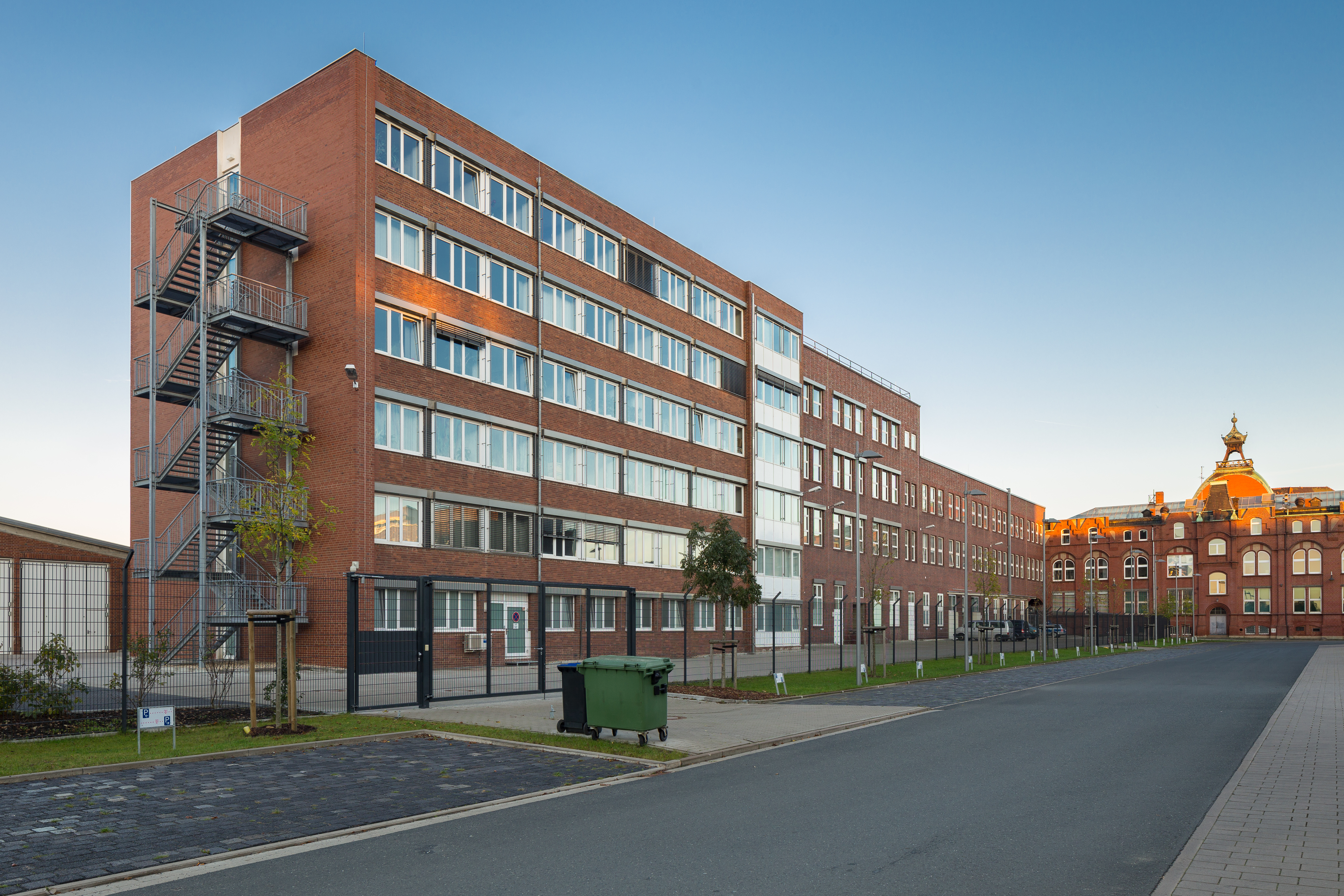 Former factory building of former Hanomag company, now used by the police. The building is located at Marianne-Baecker-Allee no. 11 in Hanover, Germany.